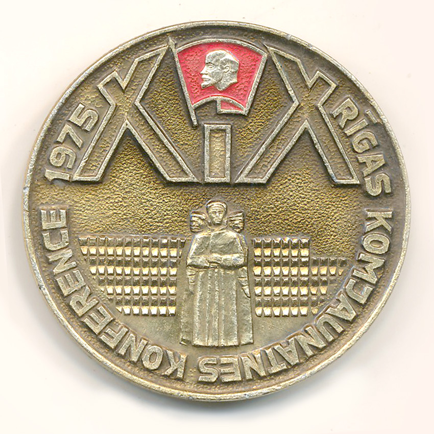 Commemorative medal. 19 Riga Komsomol Conference 1975. Avers. Riga, Latvia. 1975.